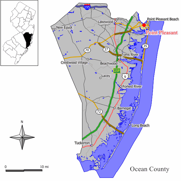 Locator map of in Monmouth County, New Jersey